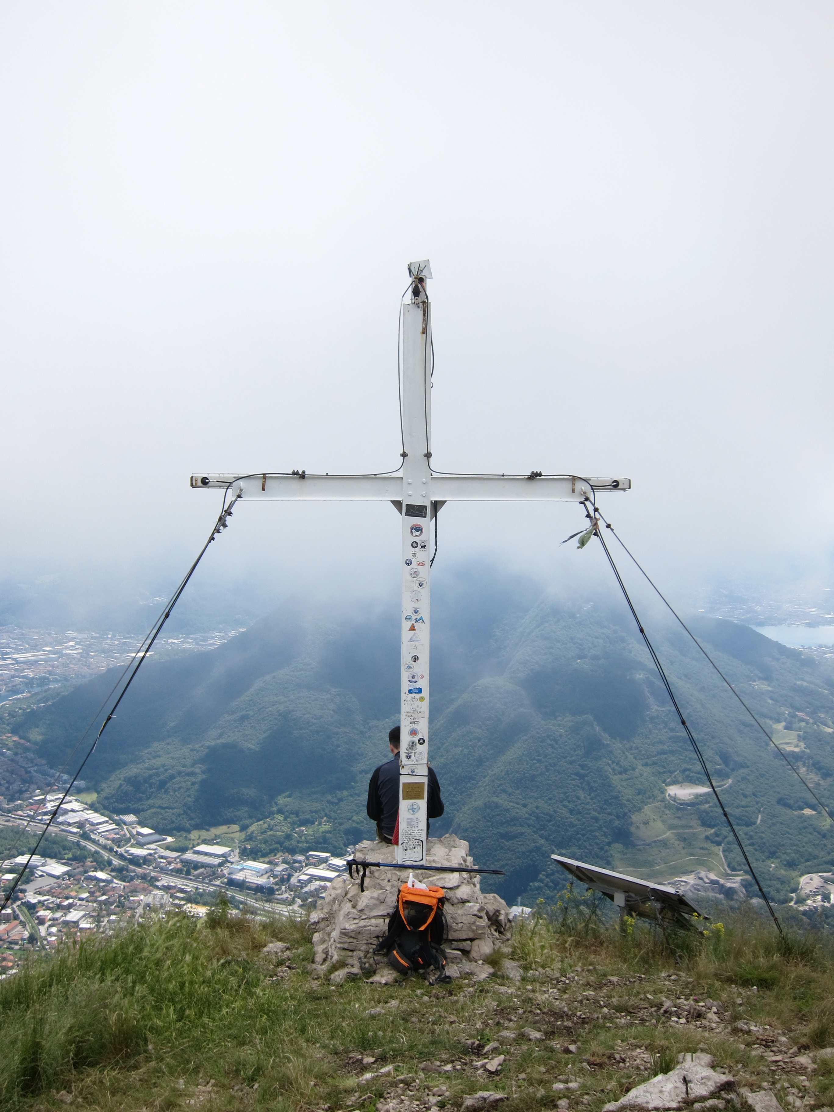 Metal cross on the summit of the mountain Corno Birone. Corno Birone is 1116 m.a.s.l. and is located in the municipality of Valmadrera in the province of Lecco in the region Lombardy in Italy. The picture was taken on the 5th of June 2020.